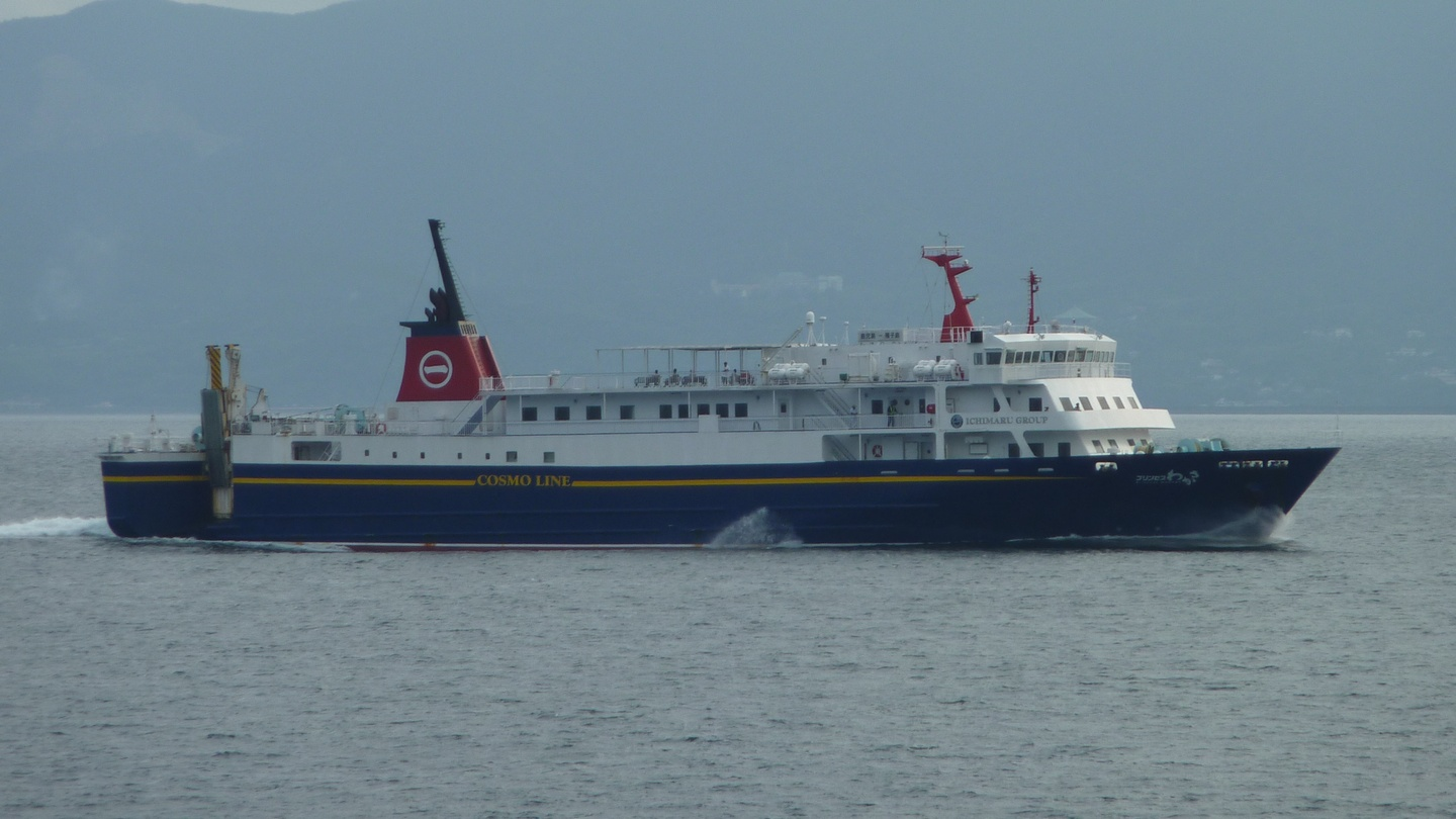 Cosmo Line Princess Wakasa (Kagoshima Prefecture, Japan)